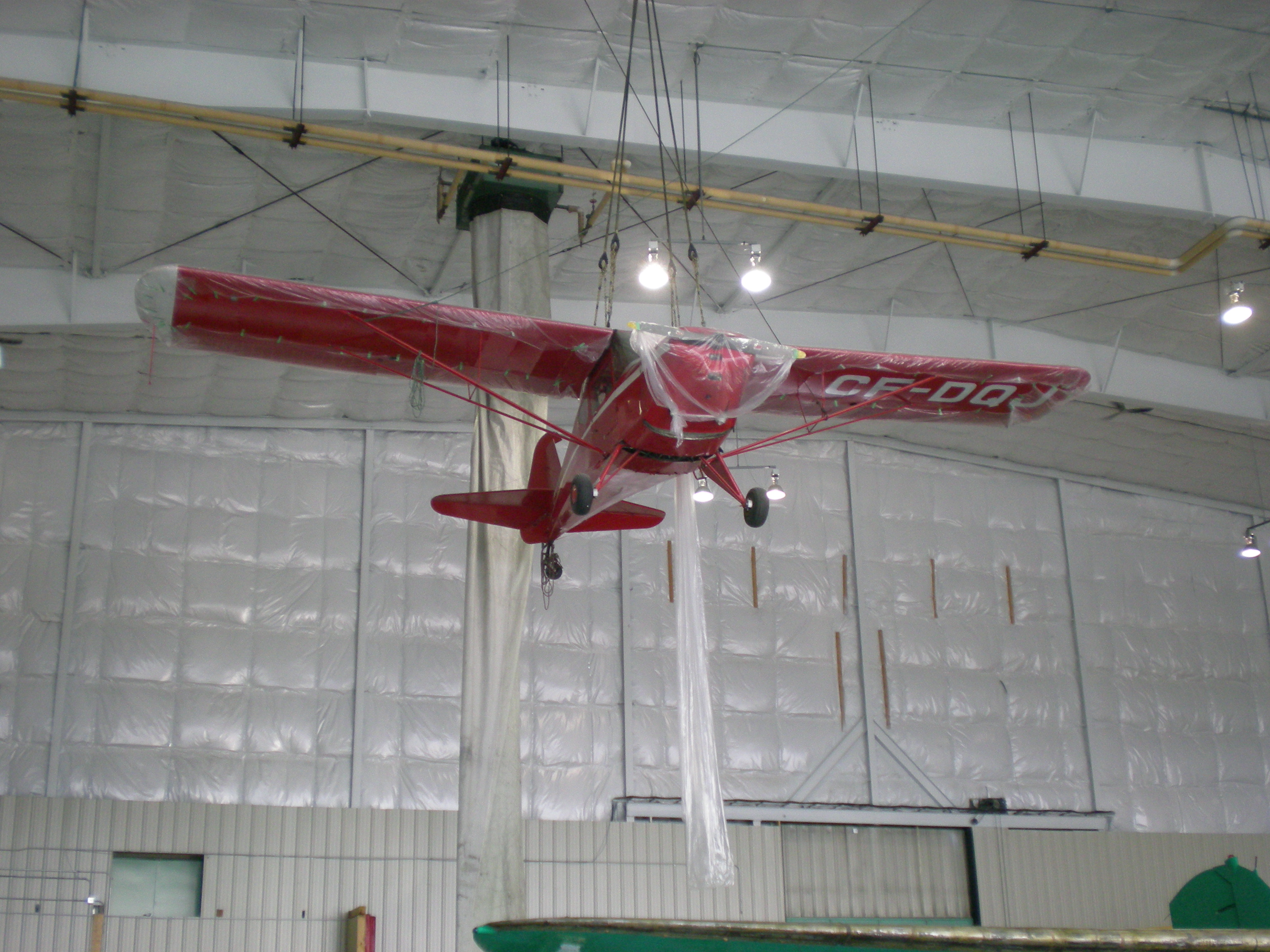 A Buffalo Airways Fleet Canuck (Fleet 80) at Yellowknife, Northwest Territories, Canada. The aircraft was part of the training school and is still in use.